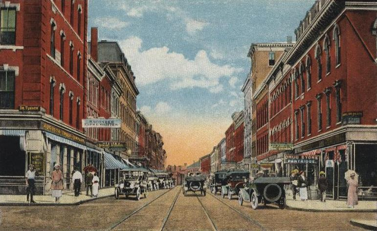 Water Street, looking North, Augusta, ME; from a c. 1920 postcard.